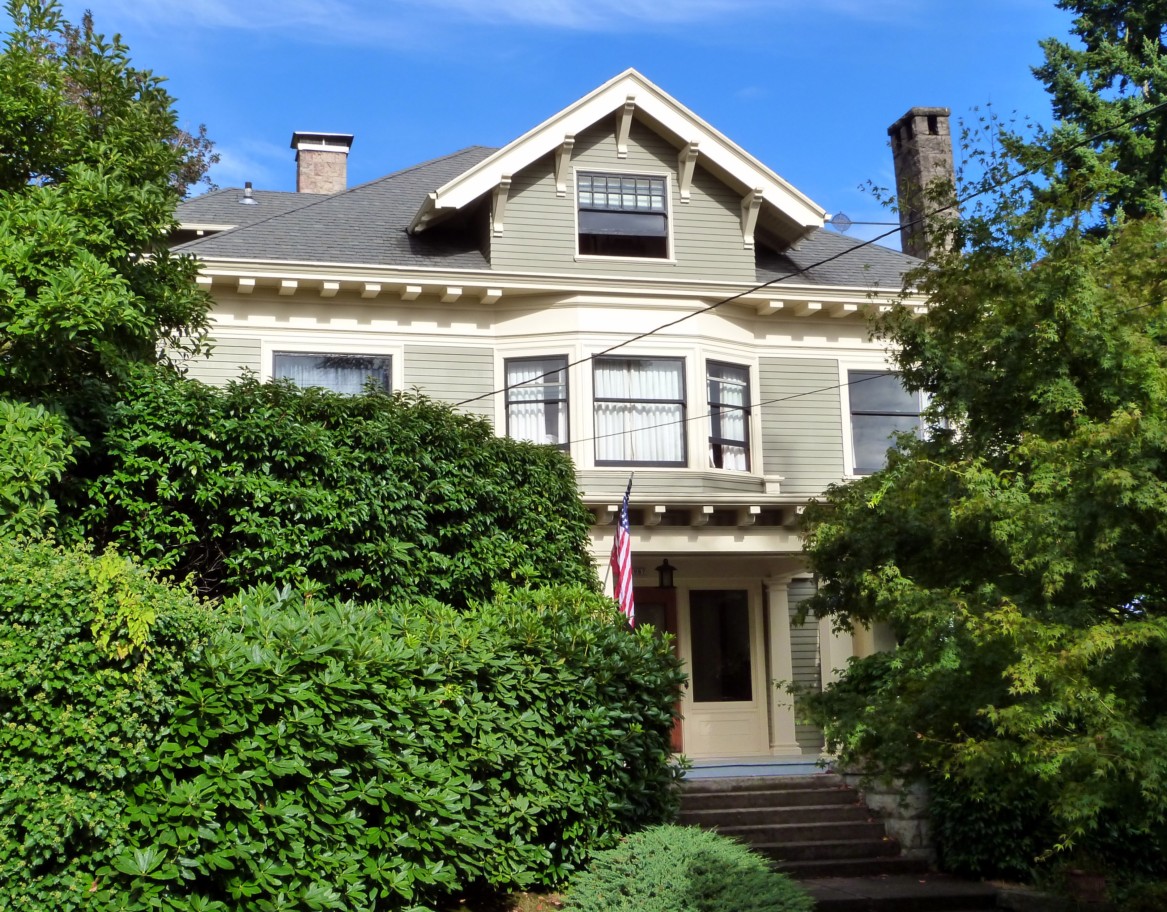 The historic A.G. Long House (built 1908), located at 1987 Southwest 16th Avenue in Portland, Oregon, United States, is listed on the US National Register of Historic Places.